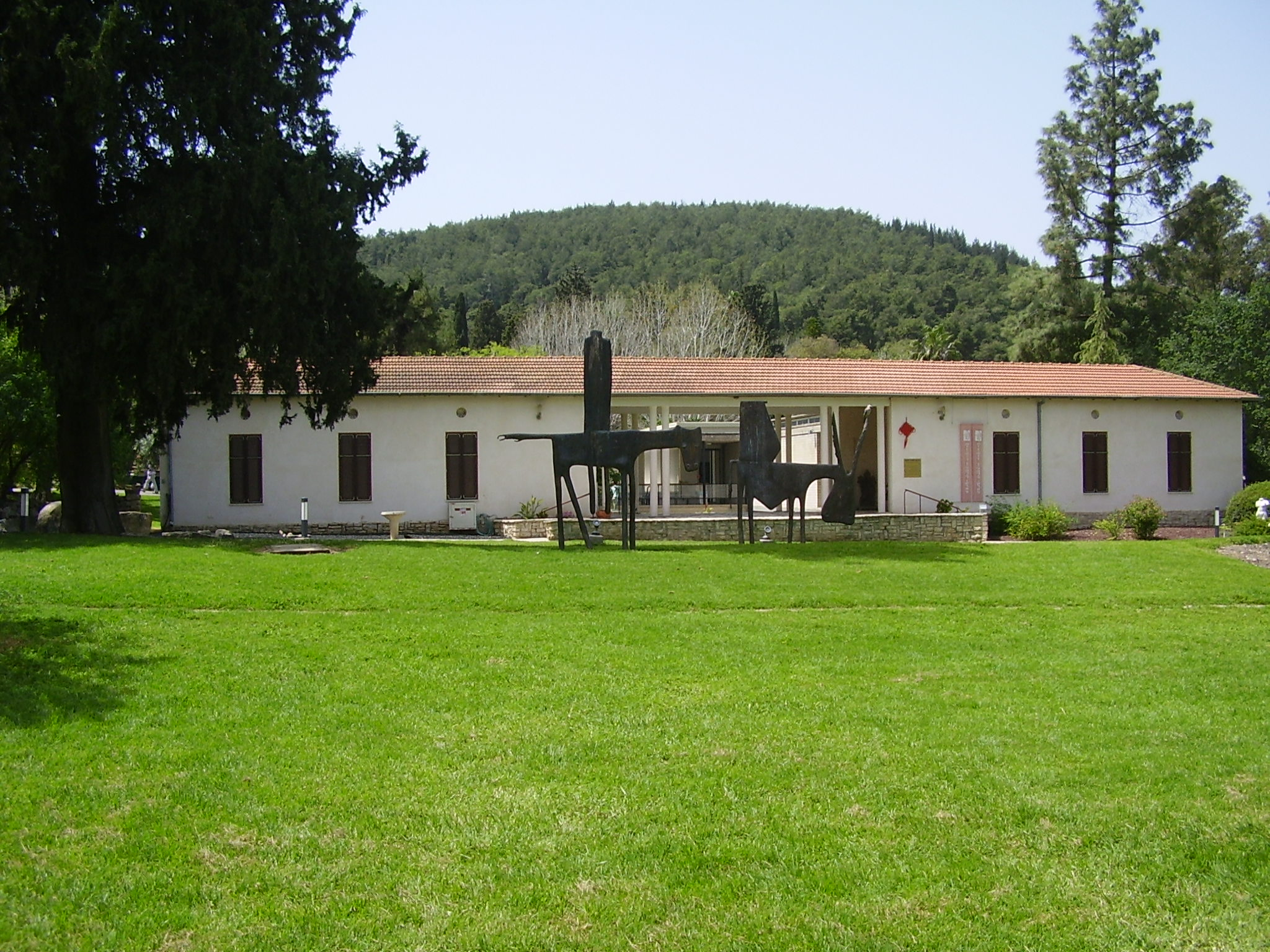 wilfried israel museum in kibbutz hazore\'a